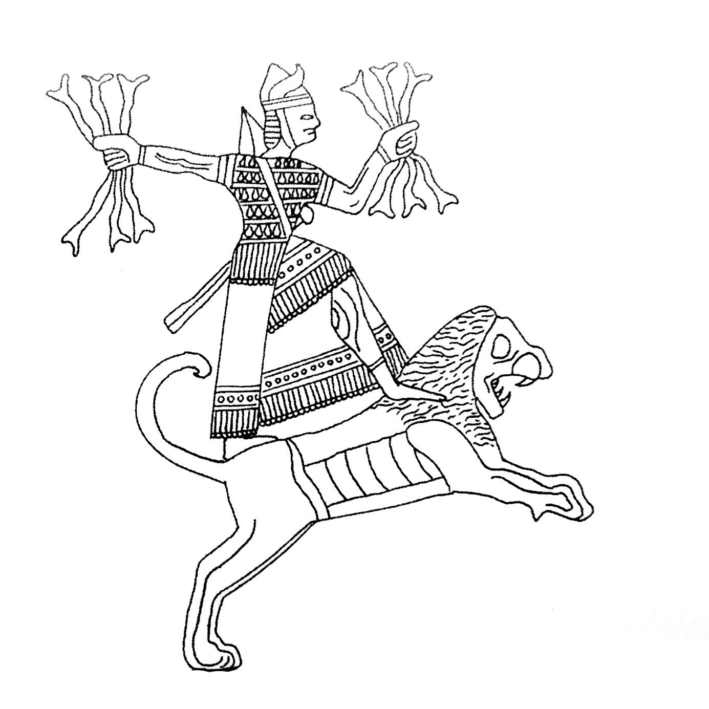 Urartian God from a shield discovered at Anzaf fortresses, Turkey